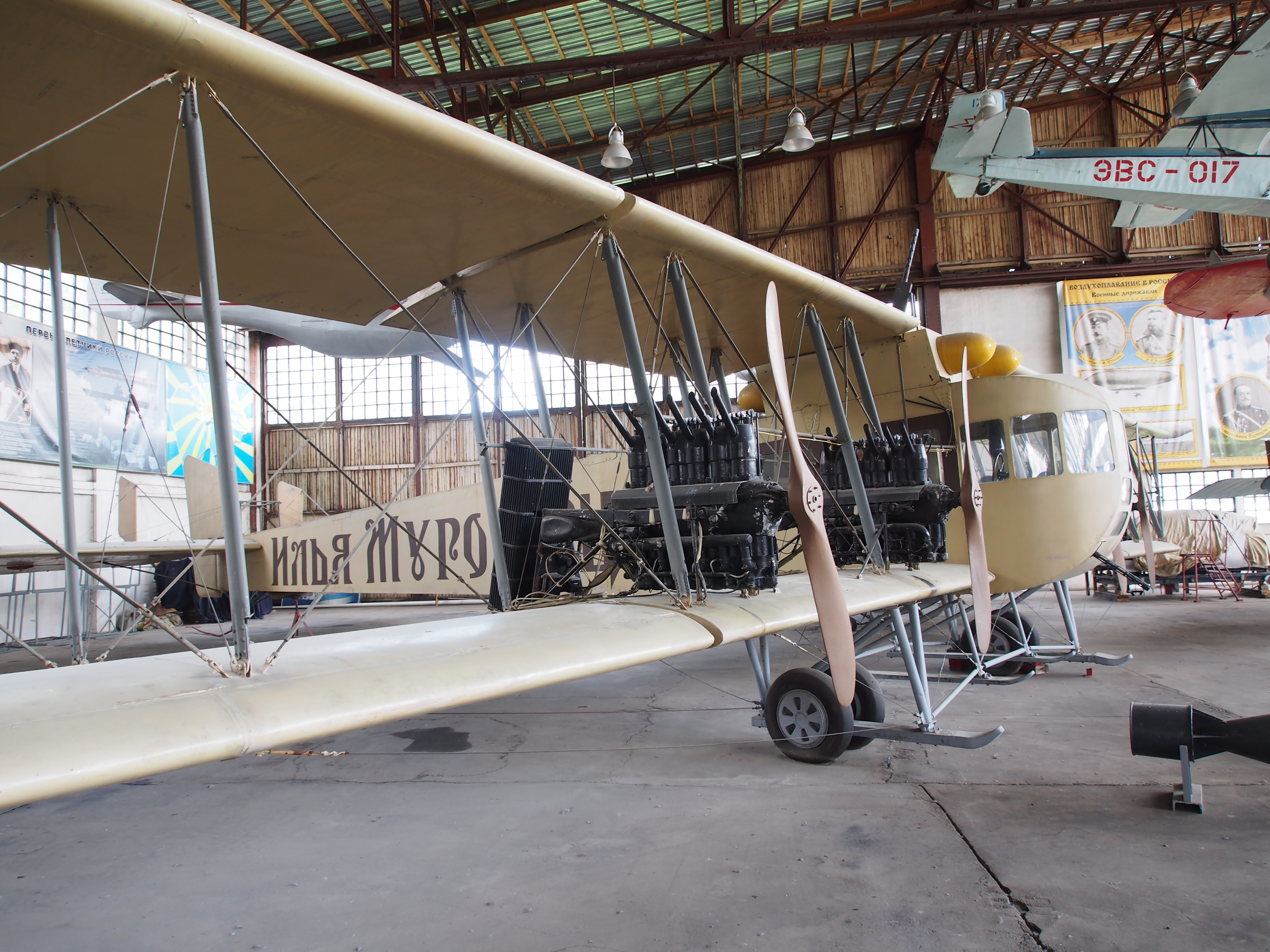 Sikorsky S-22 Ilya Muromets at Central Air Force Museum Monino